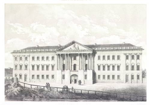 Edifice of the Kalisz Civil Tribunal, home to the Historical Records Archive from 1825-1882, illus. Stanisław Barcikowski, litho. Maksimilian Fajans, An Album of Kalisz, Edward Stawecki, 1858